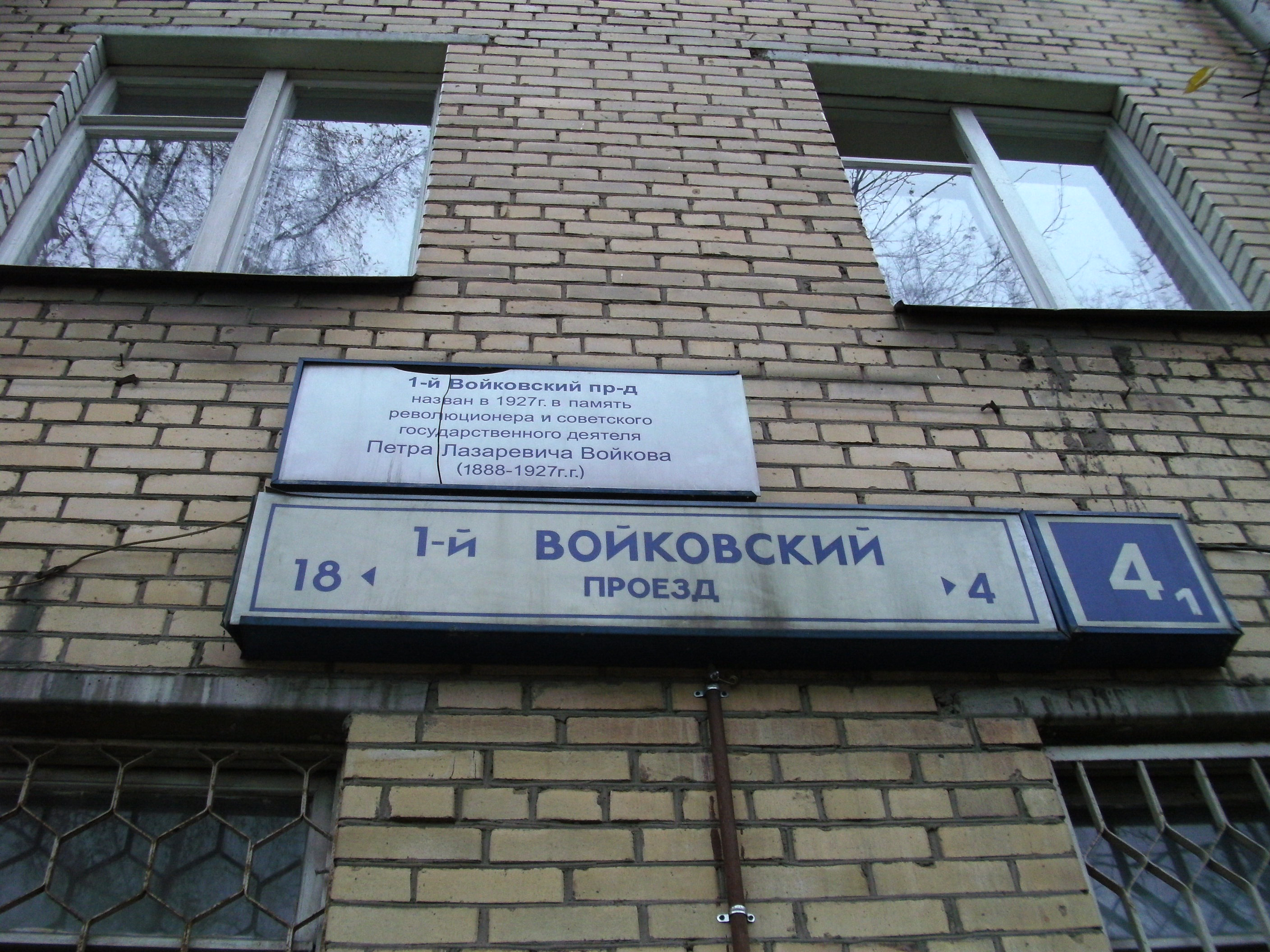 The memorial sign at 1st Voykovskiy proezd (Moscow)